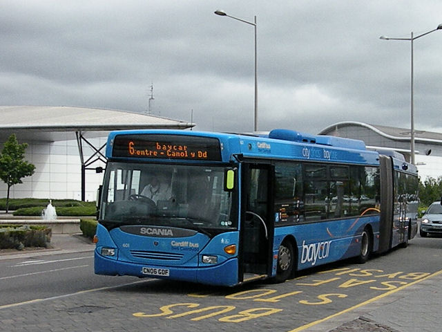 Cardiff Bus 601 (CN06 GDF), an articulated Scania OmniCity in Cardiff Bay, Cardiff, on Baycar route 6.